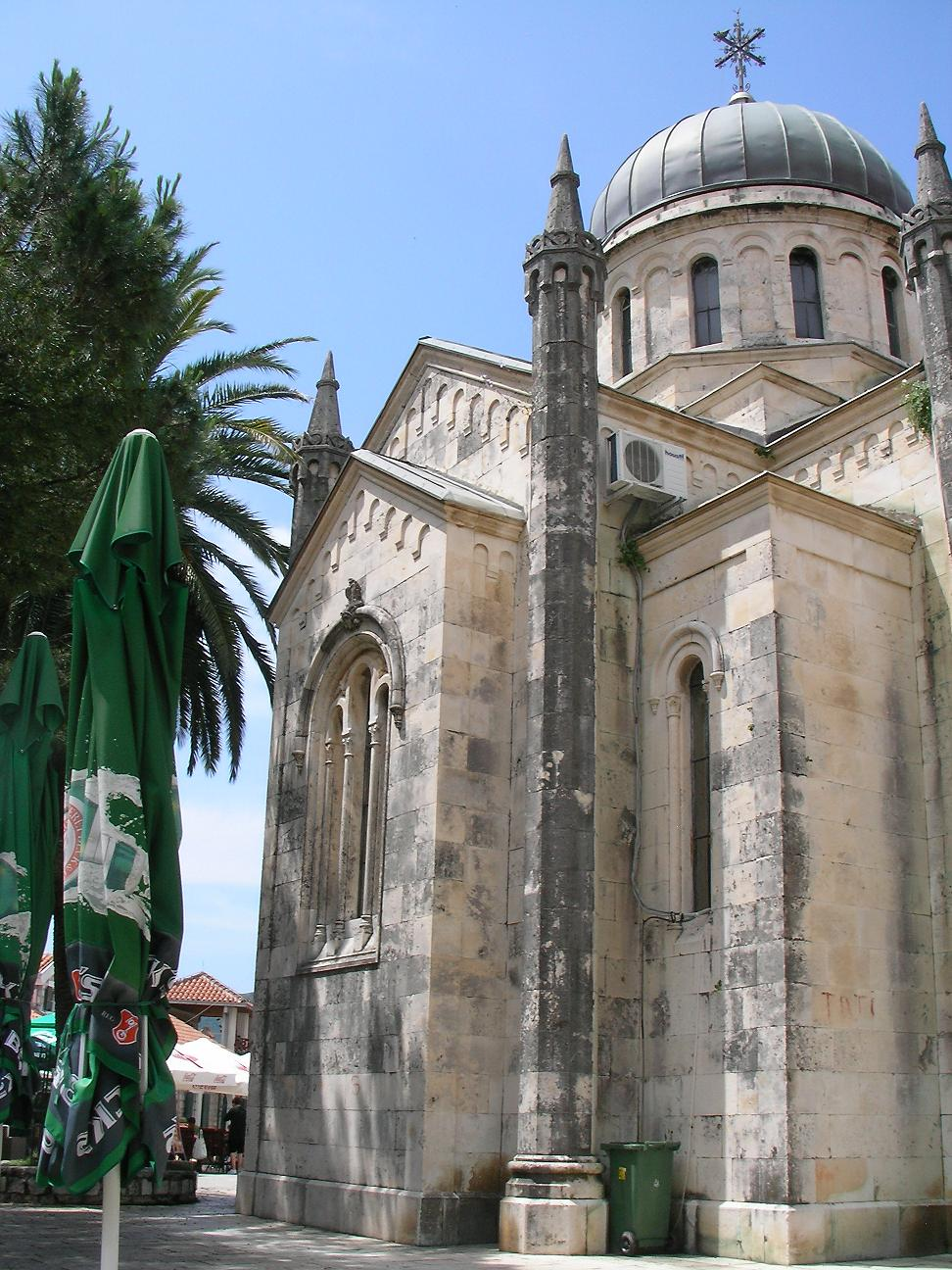 Photo of a church in Herceg Novi, Montenegro